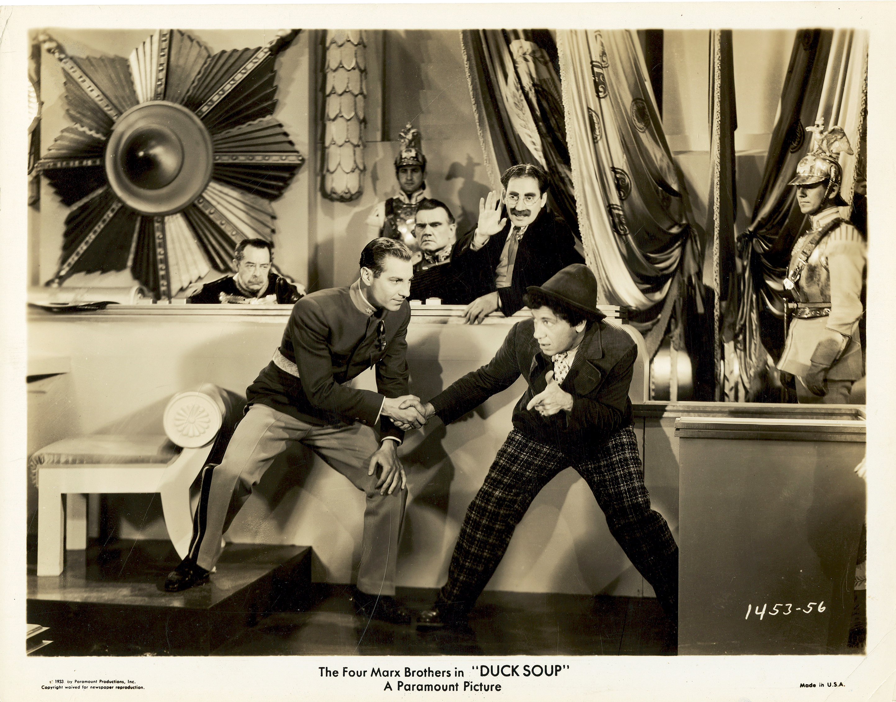 Promotional photo.